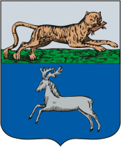 Vilyuisk (Verkholensk, Yakutia), coat of arms (1790)